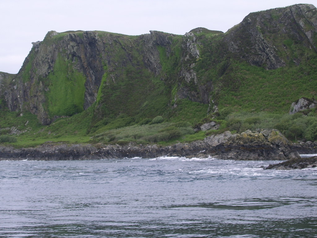 Raised beach cliff line on Lunga, Argyll, Scotland